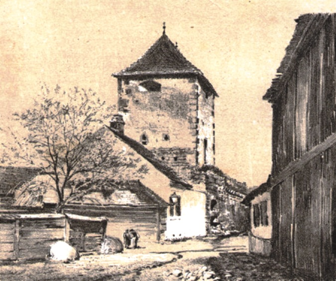 The Weavers Tower in Cluj in the 1860's